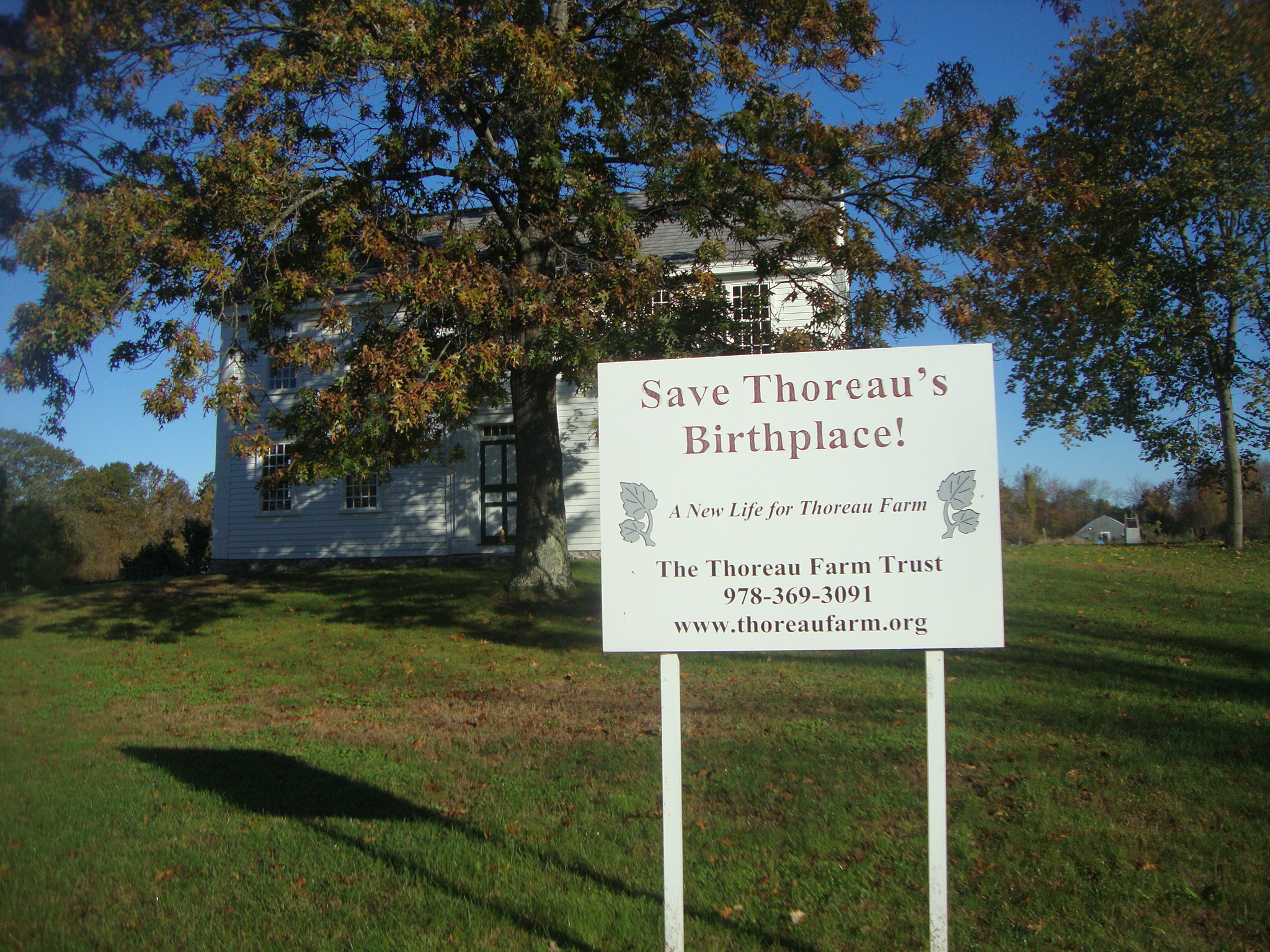 Wheeler-Minot Farmhouse or Thoreau Farm, Concord, Massachusetts.